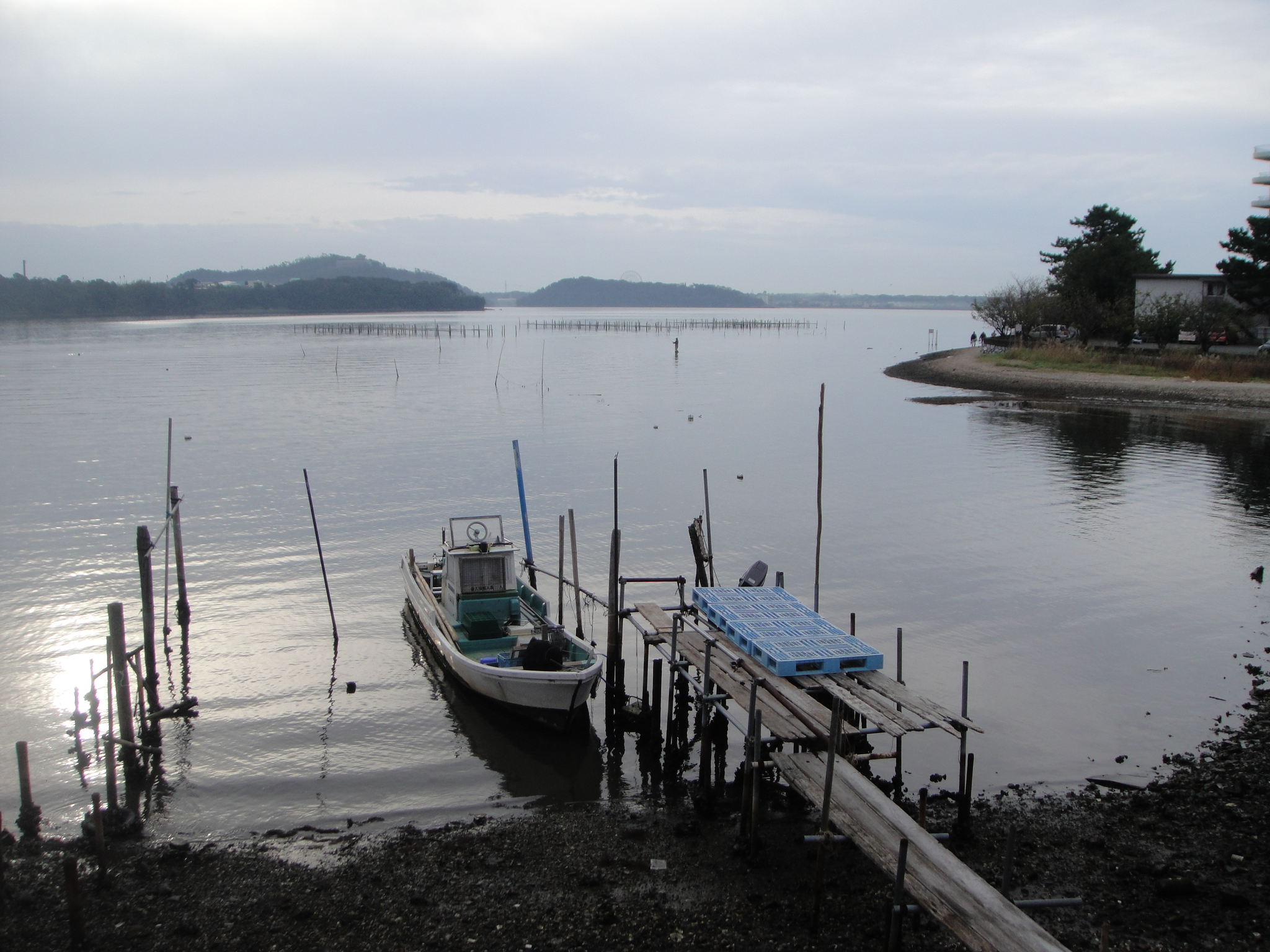 A photo of Lake, Hamana in Shizuoka, Japan that I took from Shizuoka Prefectural Road No.310 in Hamamatsu, Shizuoka.